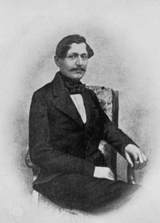 Daguerreotype of Karl van Beethoven / Nephew of Ludwig van Beethoven / son of Kaspar Karl Anton van Beethoven / son of Johanna van Beethoven